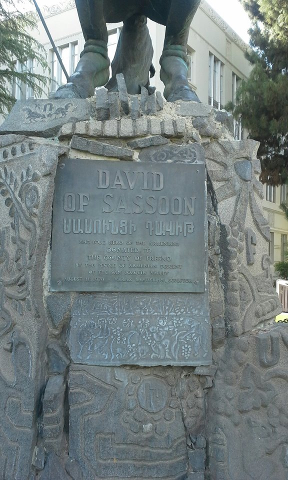 David of Sasun, Frezno, Sculptor Varaz (Varazdat Samuelyan)